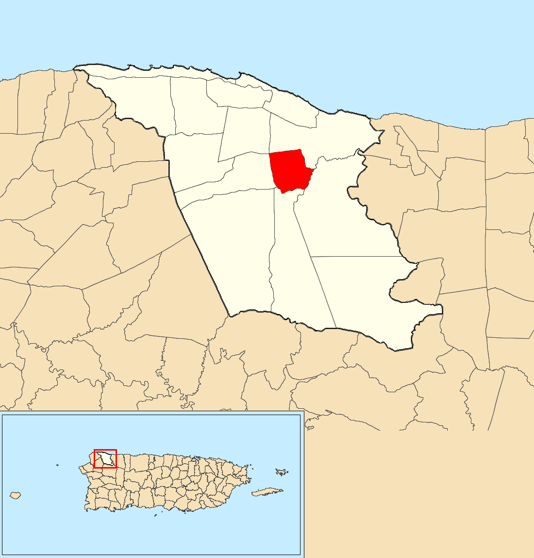 Galateo Bajo, Isabela, Puerto Rico locator map